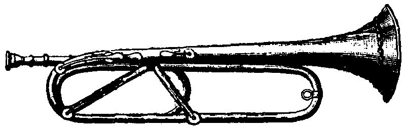 A drawing of a trumpet with five keys.